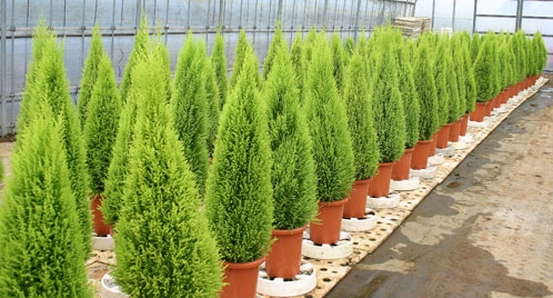 cupressus macrocarpa goldcrest